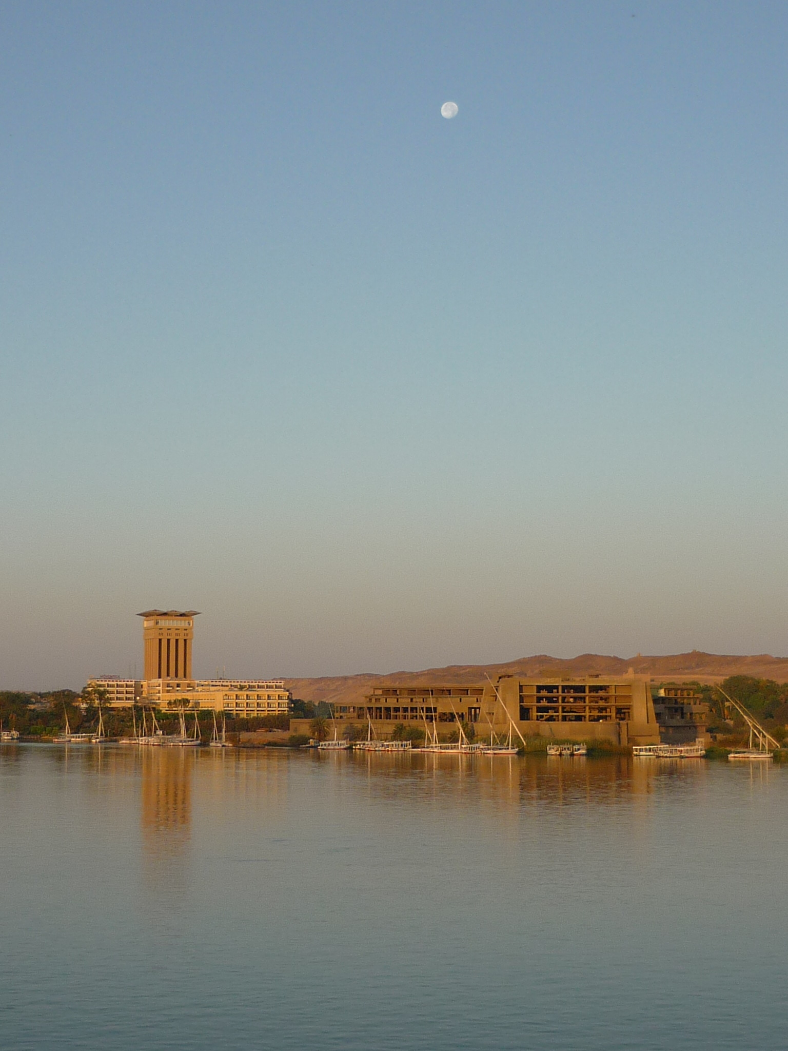 Mövenpick hotel in early morning, Aswan, Egypt